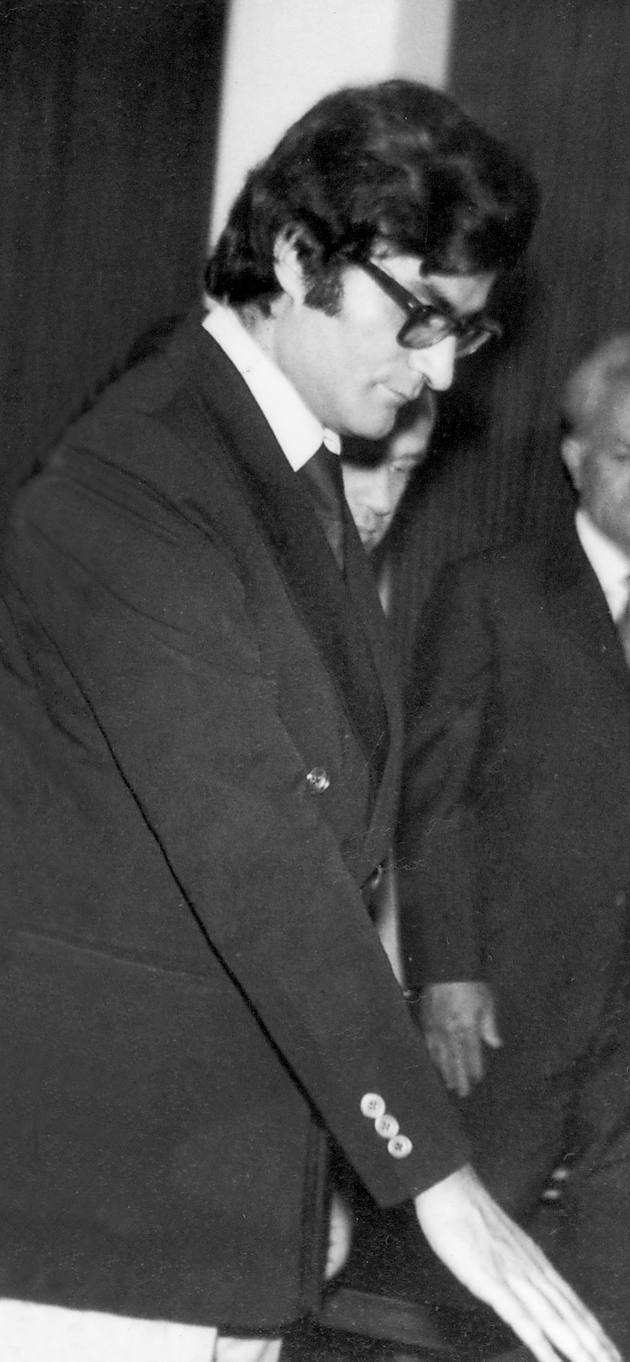 Spyros A. Katiniotis (b. 1946). Photograph on his swearing in as Mayor of Preveza in 1975.